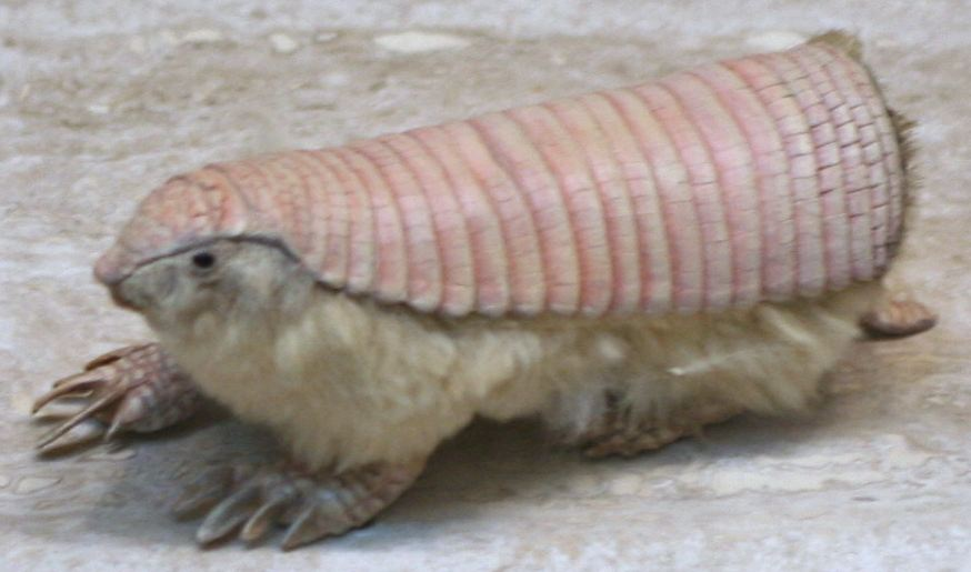 Pink fairy armadillos (or pichiciegos) are found in the warm sandy plains of Argentina. These armadillos prefer to burrow in very dry soil. If their burrows are moistened by rainfall, they leave them. These animals often burrow near anthills, so that they can be close to their food source. Pink fairy armadillo generally lives by themselves. The animals stay in their burrrows during the day and feed at night. They are remarkable diggers. Pink fairy armadillos are the smallest members of the armadillo family, measuring only about five to six inches in length. They are also the only armadillo in which the dorsal shell is almost separate from the body. Baby armadillos resemble their parents, but their shells do not completely harden until they are full grown.